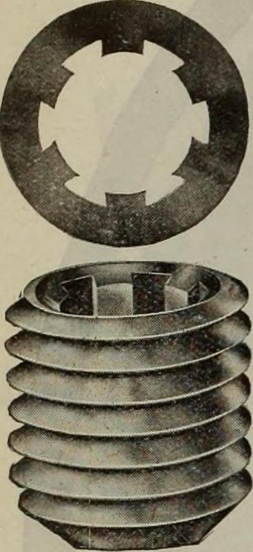 Bristol screw